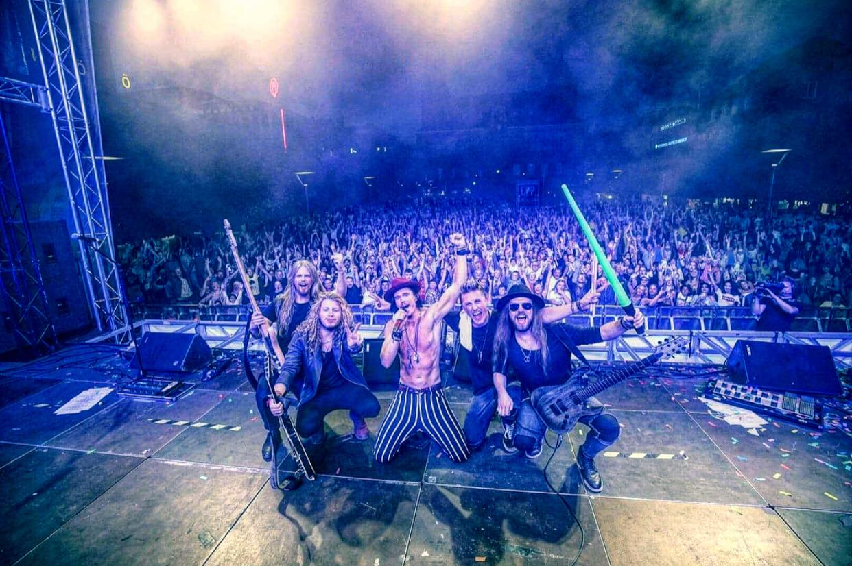 Swedish Metal band Art Nation performing live at Sommartorsdagarna 2018